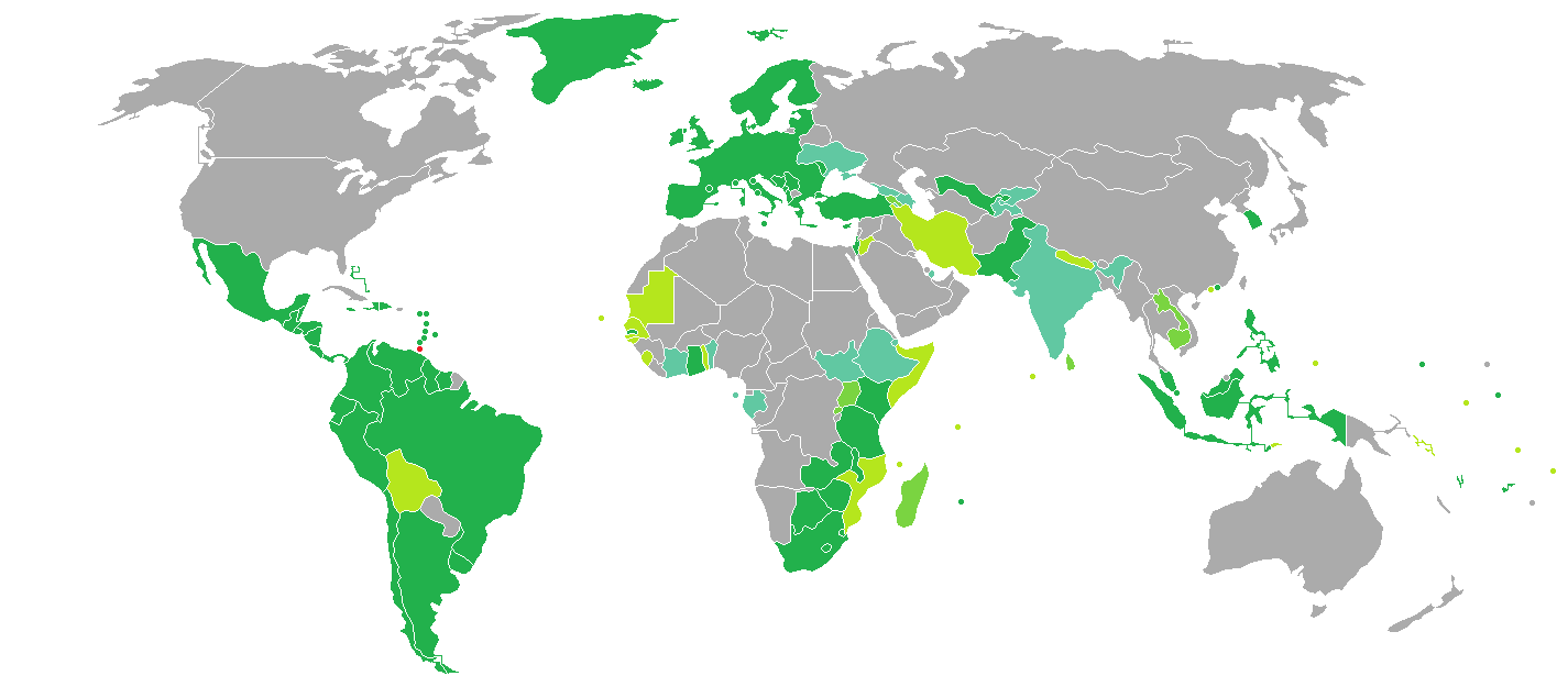 Visa requirements citizens of Trinidad and Tobago Trinidad and Tobago Visa free access Visa on arrival eVisa Visa available both on arrival or online Visa required